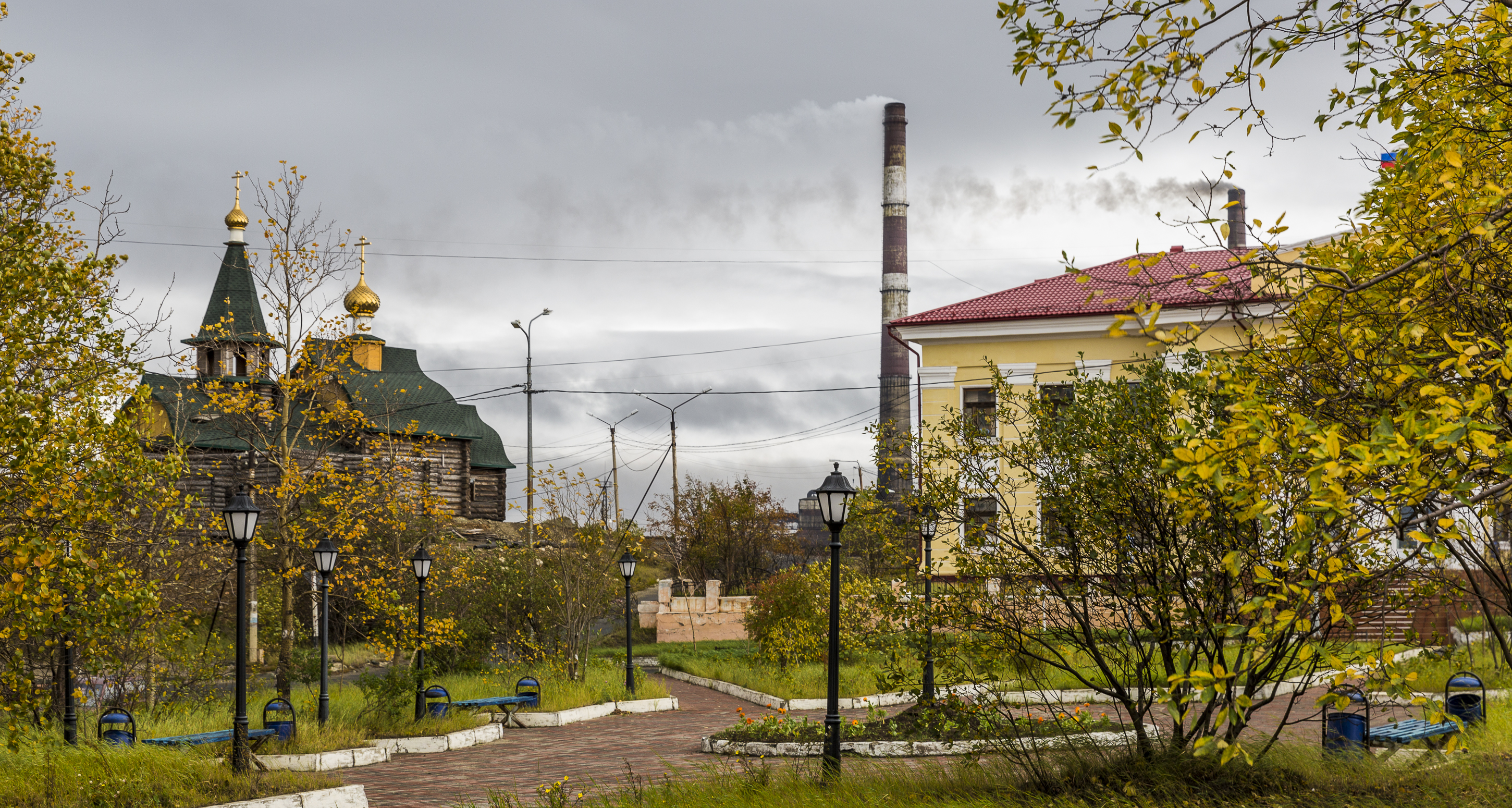 Nikel, Murmansk Oblast